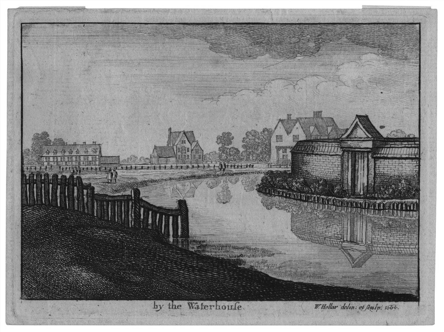 Etching of the New River Head in Islington north of London, made in 1665.